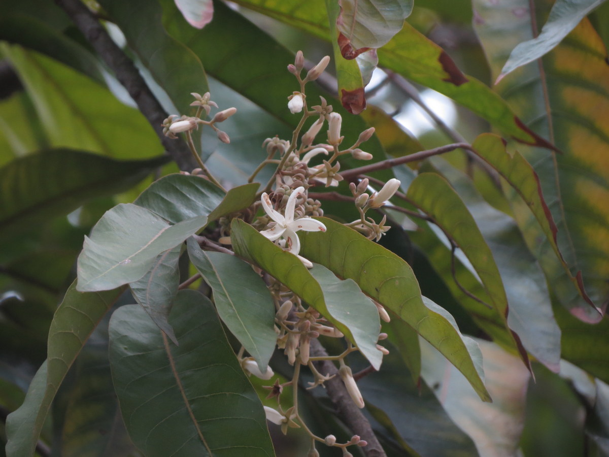 Vatica chinensis - This is a critically endangered tree of the western ghats.